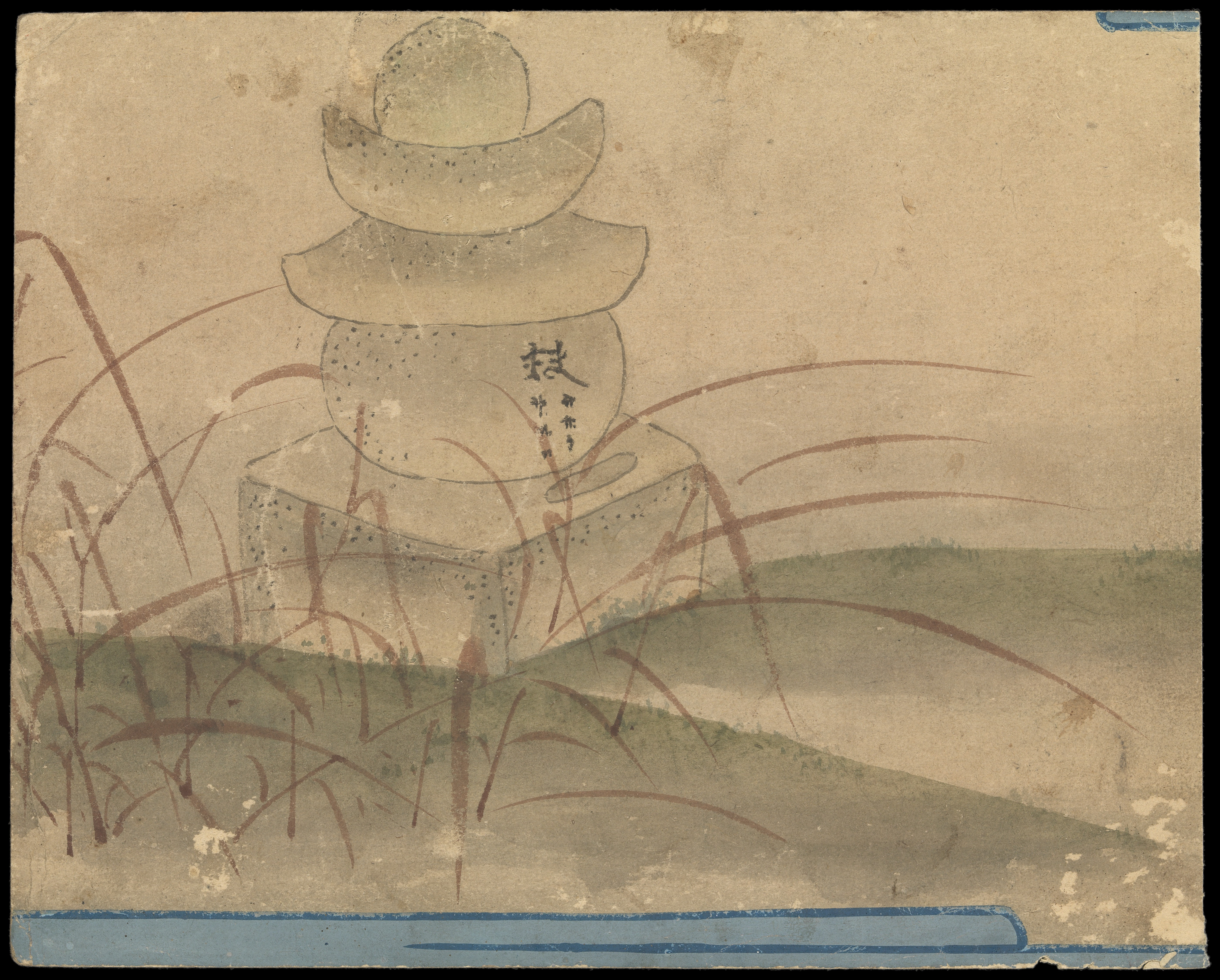 Kusozu: the death of a noble lady and the decay of her body. Final painting in a series of 9 watercolour paintings. The final image is of a memorial structure upon which her Buddhist death-name is inscribed in Sanskrit. Iconographic Collections